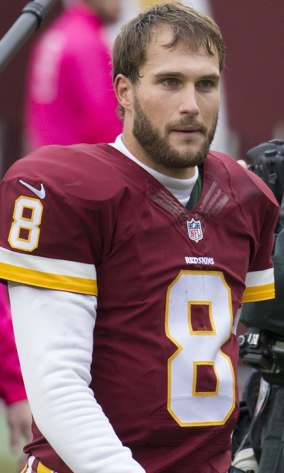 Eagles at Redskins 10/04/15